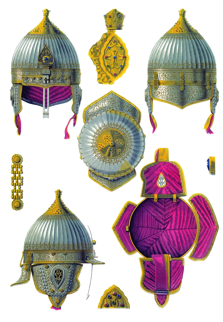 Шлем царя Алексея Михайловича При описании шапки вывоза боярина Афанасия Прончищева (рис. № 10, 11) мы объяснили причину ошибочной подписи, сделанной на рисунках ерихонских шапок Алексея Михайловича Львова, Прончищева и Мстиславского. Шлем, изображенный на рисунках № 16 и 17, подписанный: «царя Алексея Михайловича», принадлежал, как оказалось теперь, по рассмотрении старинных описей 1687-го и 1701 г., боярину князю Федору Ивановичу Мстиславскому. В описной книге государевой Оружейной казны 1687 г. он означен в числе ерихонских шапок третьим: «Шапка Ерихонская булат красной, наведена по нарезке золотом, нос и уши прорезные; венец и кайма поверх венца, и затылок, и полка наведены золотом же, в ушах в закрепке девяносто шесть гнезд серебреных горощетых, да в венце и в полке и в ушах двадцать гвоздей серебреных золоченых, репчатых; верх и яблочка и плащи чеканные золотые с каменем, каменье бирюз и винисок пятьдесят восемь; около шапки и полки и затылка и ушей дорога серебреная позолочена; по верхним плащам кайма наведена по нарезке золотом; на носу в гнездех камень яхонт лазорев с дырою; на носу ж на спне в закрепке два зерна бурмицких, подложены отласом червчатым; на ушах по две завязки отласных по червчатой, да по жолтой; у затылка три цепочки серебряных золочены; а в прежних переписных книгах под тою статьею написано по сказке мастеров: та шапка бывала Князя Федора Ивановича Мстиславскаго. А по нынешней переписи рч`є года и по осмотру, та шапка против прежних переписных книг сошлась; чехол суконной красной; по осмотру, на затылке у чепочки гвоздика нет. Цена той шапке триста тридцать рублев, а в прежней описной книге написана первою».